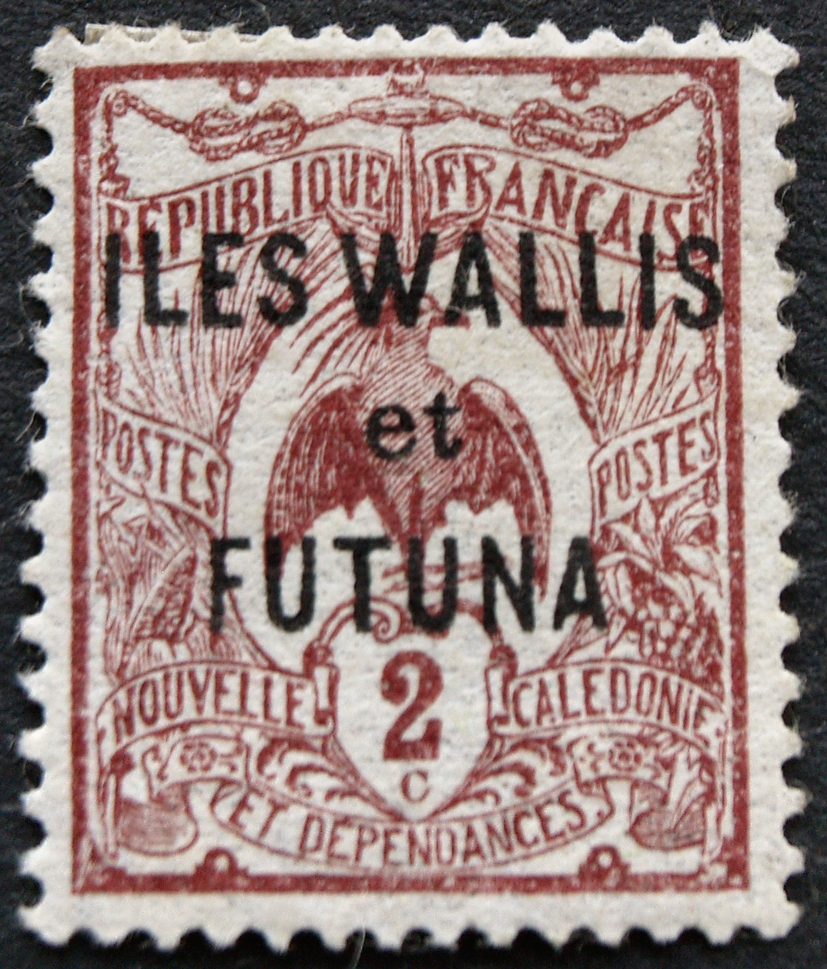 Stamp of New Caledonia, representing a cagou, with overprint for Wallis and Futuna